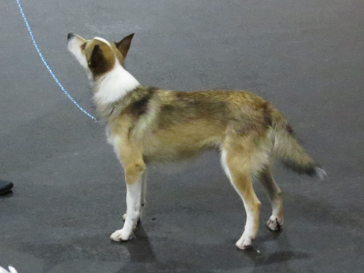 Riga, Baltic Winner 2013, 9-10 Nov